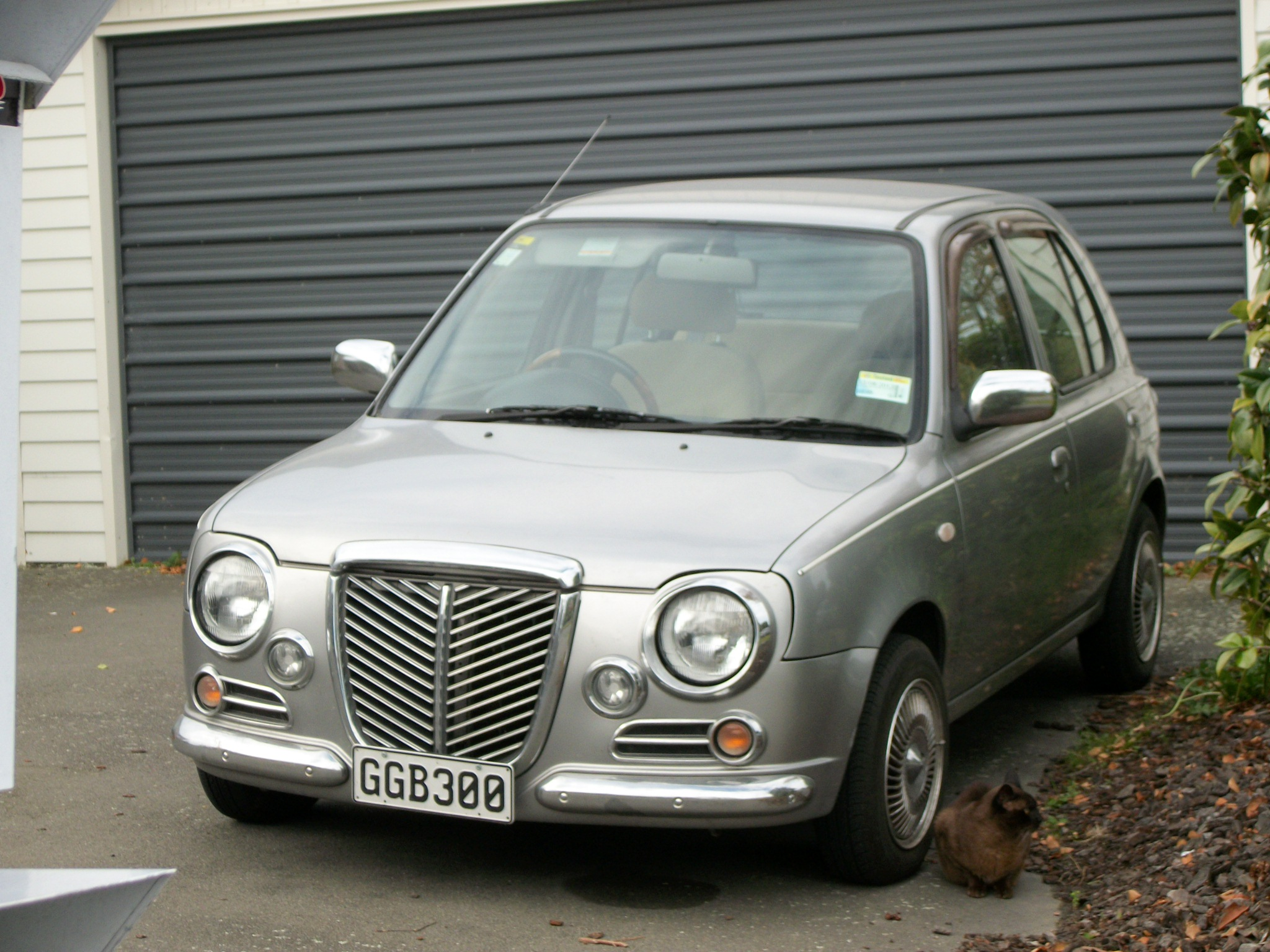 GGB300 Wonderfully horrid, but still, it's fascinating to see the 'domestic market only' oddities that come out of Japan...